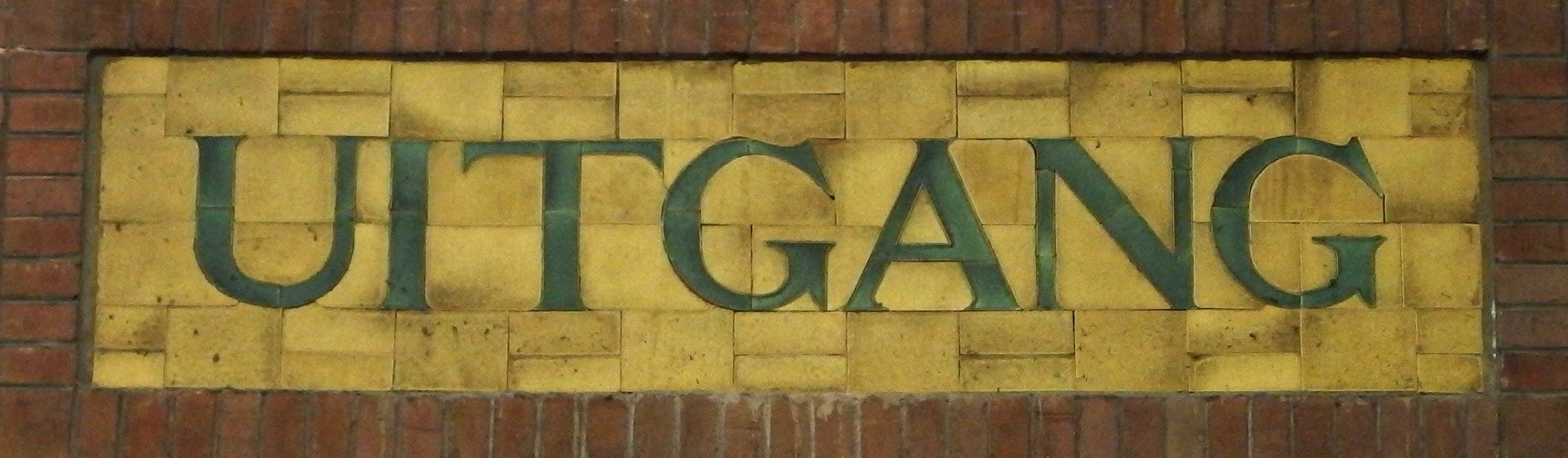 20140526 in Maastricht at Central Station Maastricht.